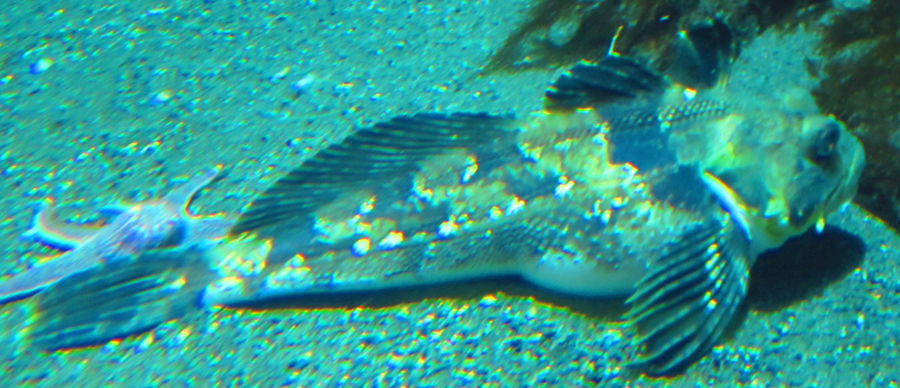 Yellow Irish lord (Hemilepidotus jordani). Alaska SeaLife Center, Seward, Alaska.